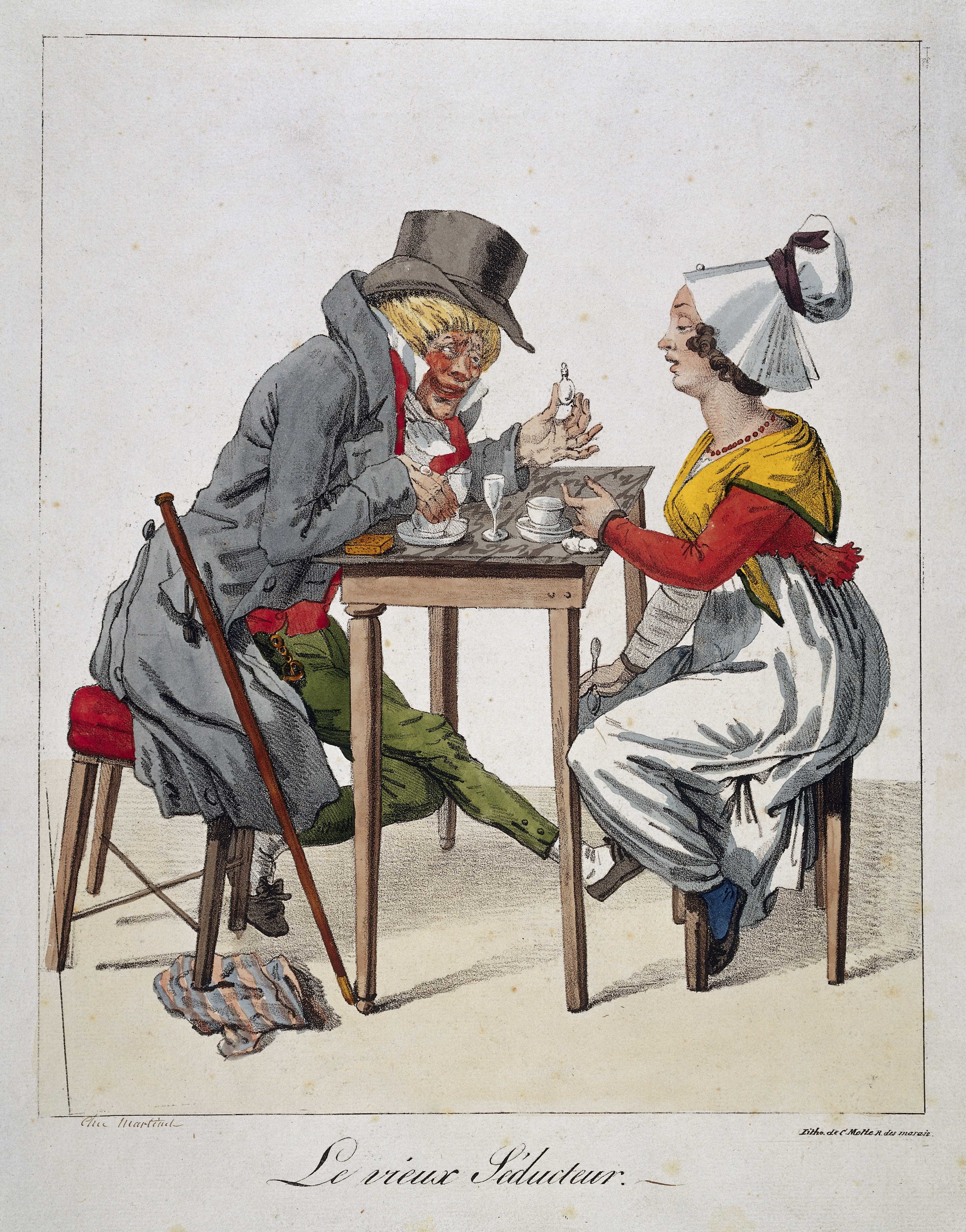 A corrupt old man tries to seduce a woman by urging her to take a hypnotic draught in her drink Iconographic Collections Keywords: Date Rape Drug; Seduction; Charles Etienne Pierre Motte; Drinking; Sexual Harassment